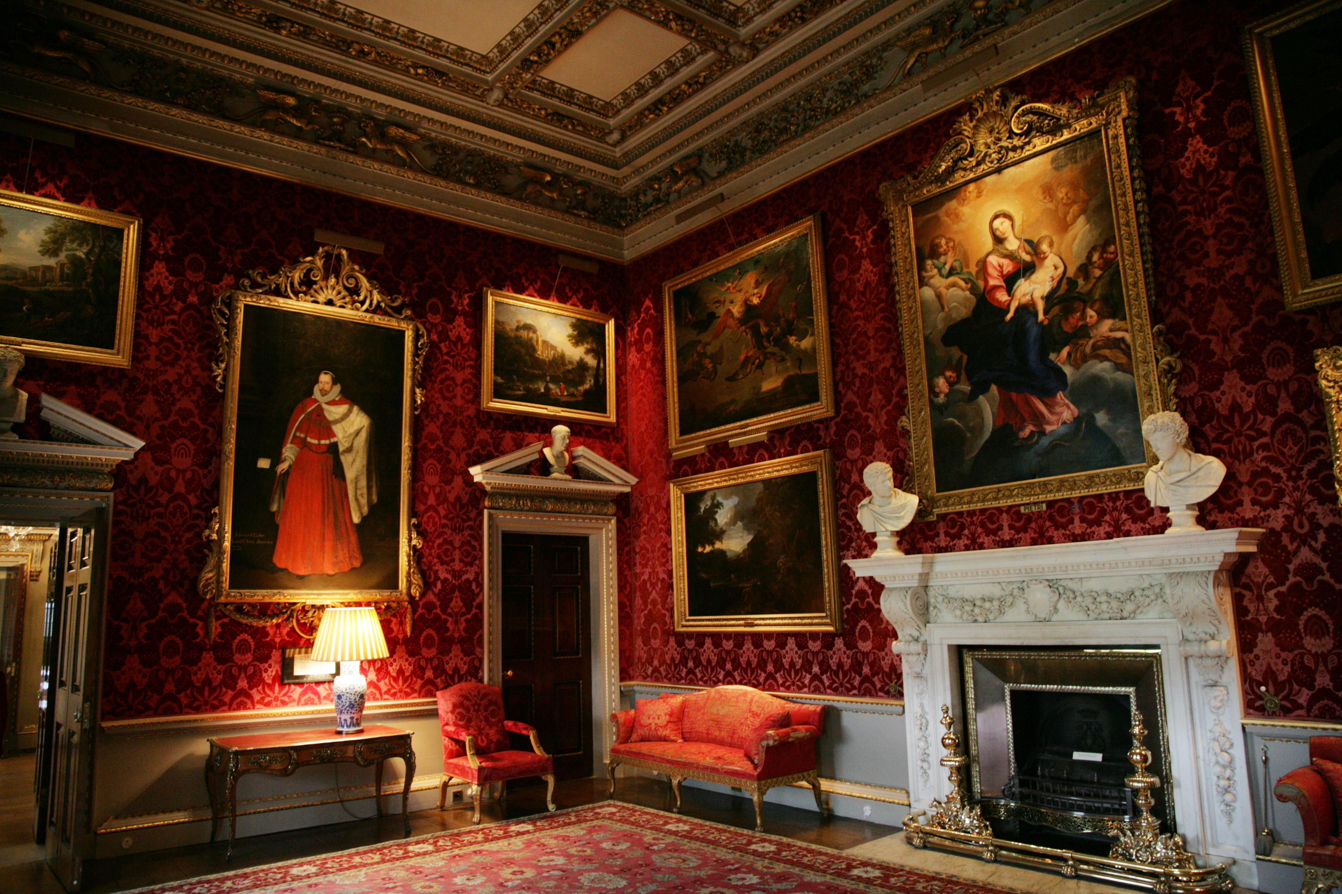 Holkham Hall in Norfolk. The Saloon